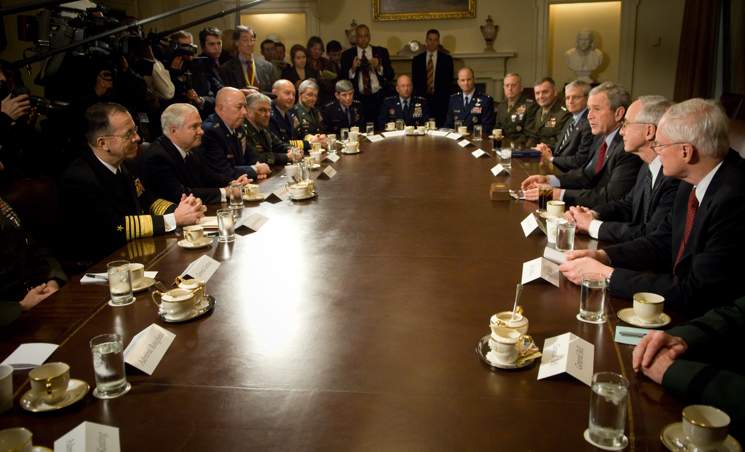 WASHINGTON (Jan. 29, 2008) Adm. Mike Mullen, chairman of the Joint Chiefs of Staff and Secretary of Defense Robert M. Gates attend a meeting of military combatant commanders with President George W. Bush in the Cabinet Room of the White House. U.S. Navy photo by Mass Communication Specialist 1st Class Chad J. McNeeley (Released) Going around the table starting from the bottom left: Admiral Timothy Keating (Commander, U.S. Pacific Command) (not in picture), Admiral Gary Roughead (Chief of Naval Operations) (not in picture), General James Conway (Commandant of the Marine Corps) (head cut off in the picture), Admiral Michael Mullen (Chairman of the Joint Chiefs of Staff), Robert Gates (Secretary of Defense), General T. Michael Moseley (Chief of Staff of the Air Force), General George Casey (Chief of Staff of the Army), Admiral Thad Allan (Commandant of the Coast Guard), General Bantz Craddock (Commander, U.S. European Command and Supreme Allied Commander Europe), General Norton Schwartz (Commander, U.S. Transportation Command), General Victor Renuart, Jr. (Commander, U.S. Northern Command and Commander, North American Aerospace Defense Command), General Kevin Chilton (Commander, U.S. Strategic Command), General James Mattis (Commander, U.S. Joint Forces Command and Supreme Allied Commander Transformation), General James Cartwright (Vice Chairman of the Joint Chiefs of Staff), Josh Bolten (White House Chief of Staff), George W. Bush (President of the United States), Gordon England (Deputy Secretary of Defense), Stephen Hadley (National Security Advisor), General Burwell B. Bell III (Commander, United Nations Command, Commander, R.O.K.-U.S. Combined Forces Command and Commander, U.S. Forces Korea) (not in picture).